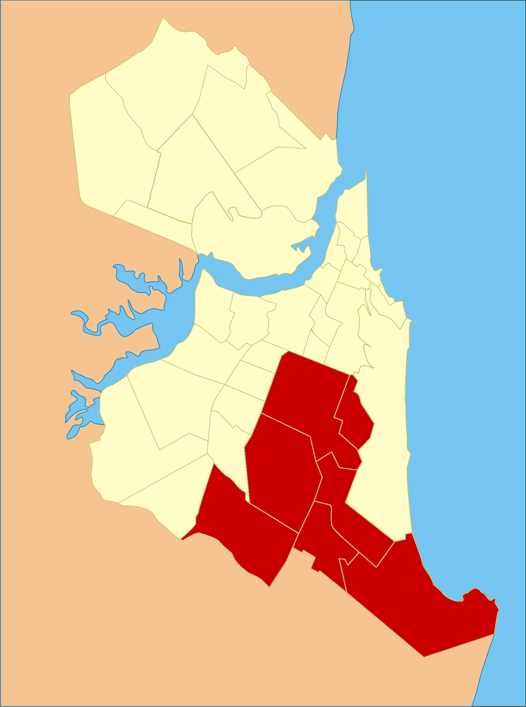 Location map of South Zone in Natal (Rio Grande do Norte), Brasil.